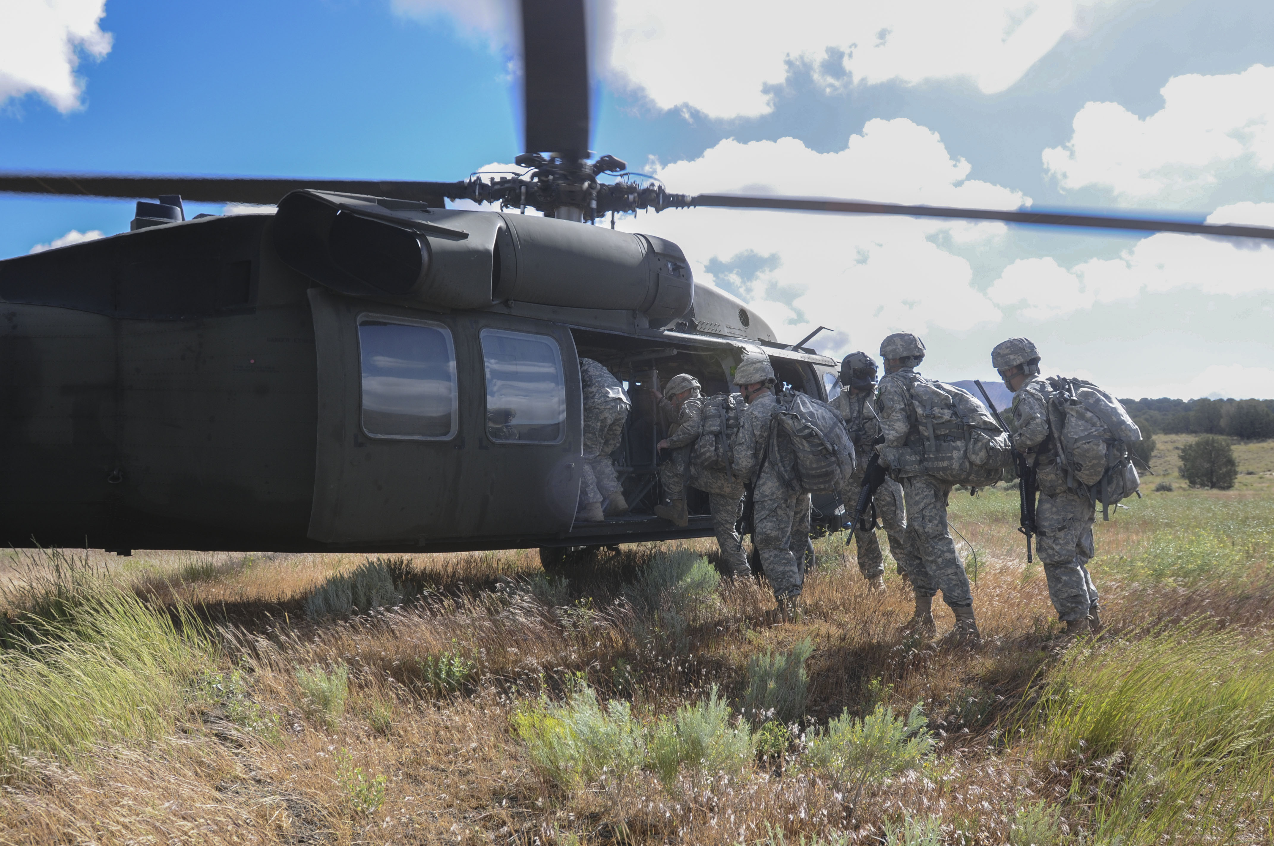 California National Guard soldiers board a UH-60 Blackhawk during training at Camp Williams in Utah, 2014.